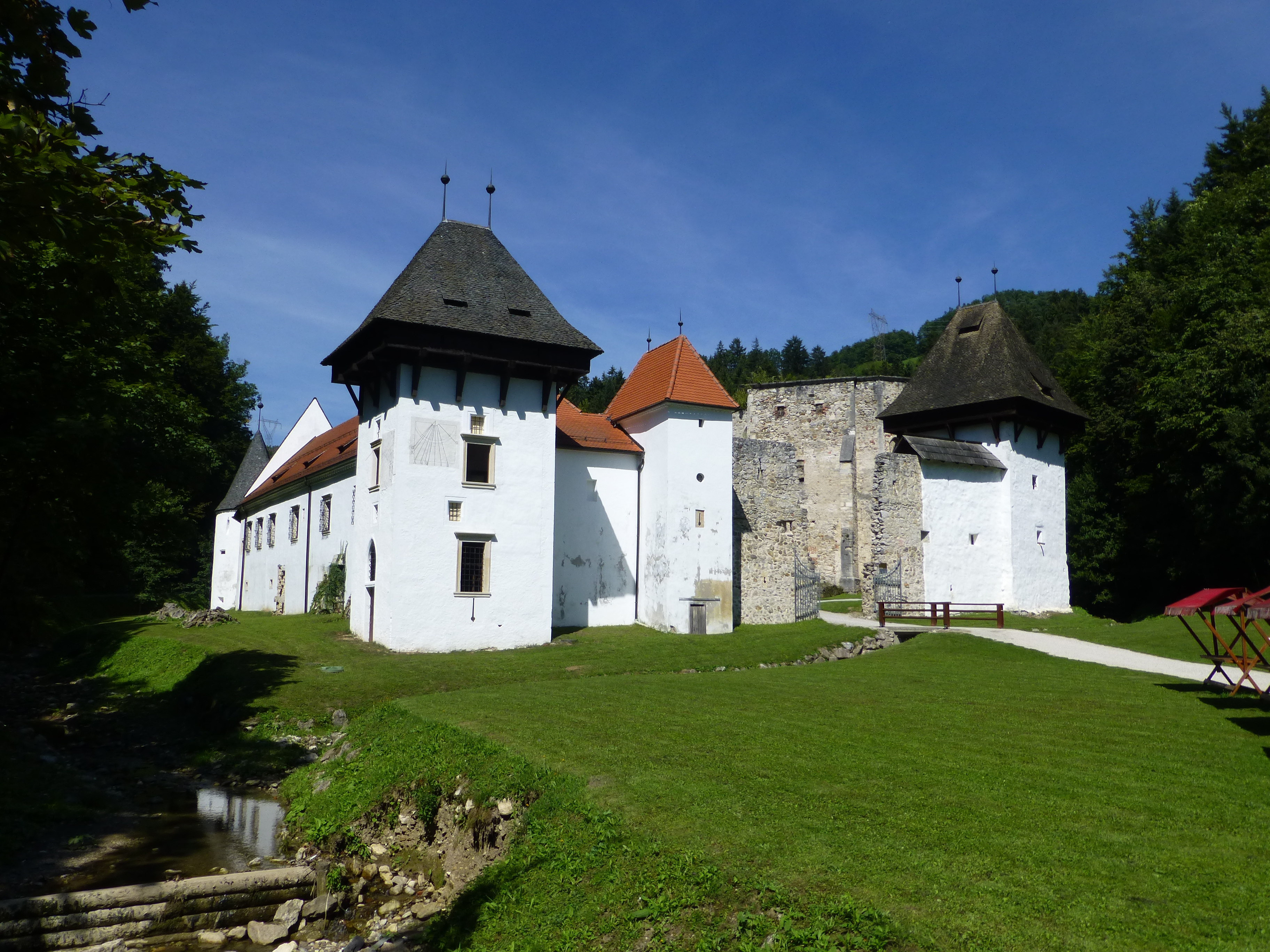 Žiče Charterhouse after a major renovation in 2015, 2 sides well visible.